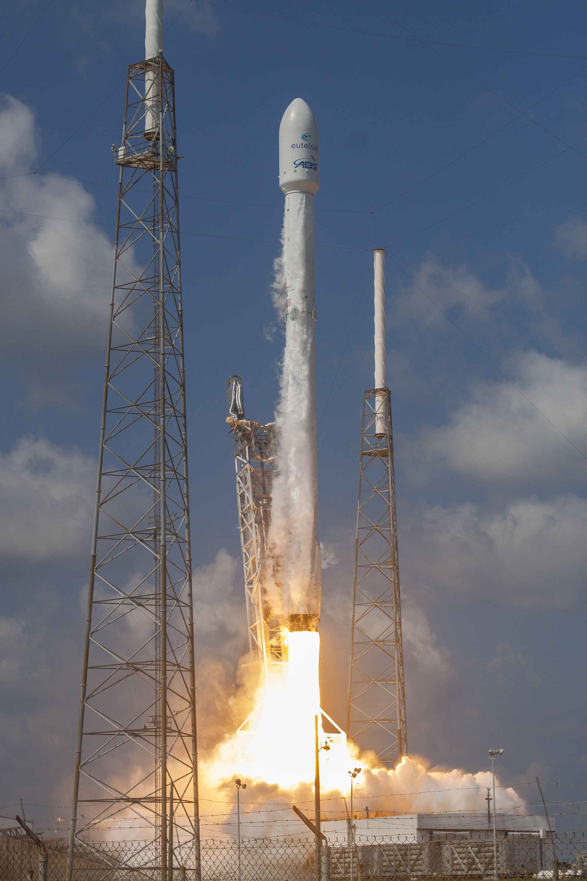 Eutelsat/ABS Launch